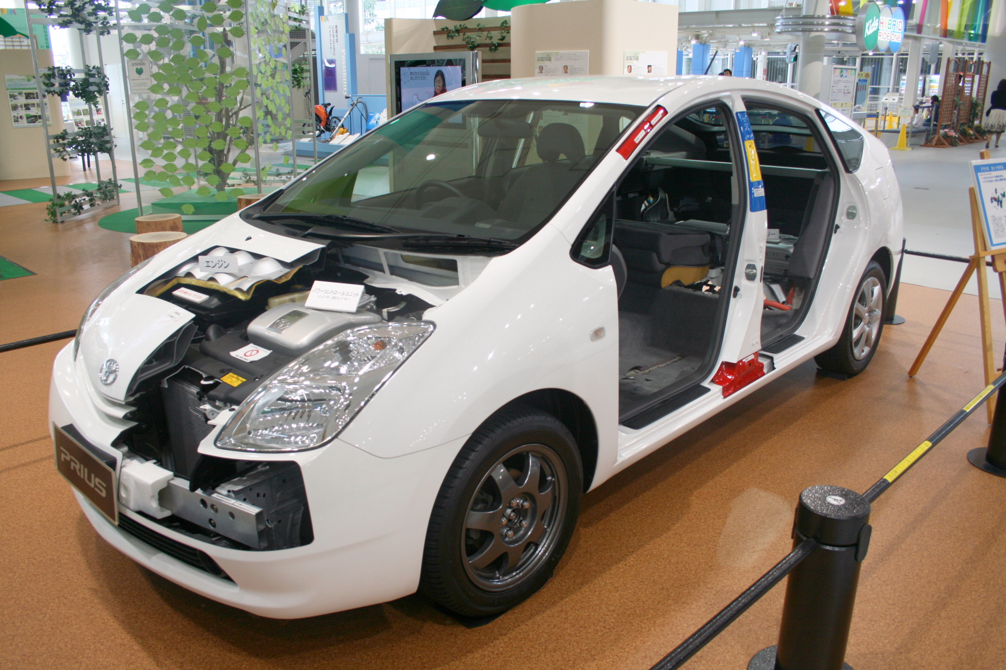 Prous